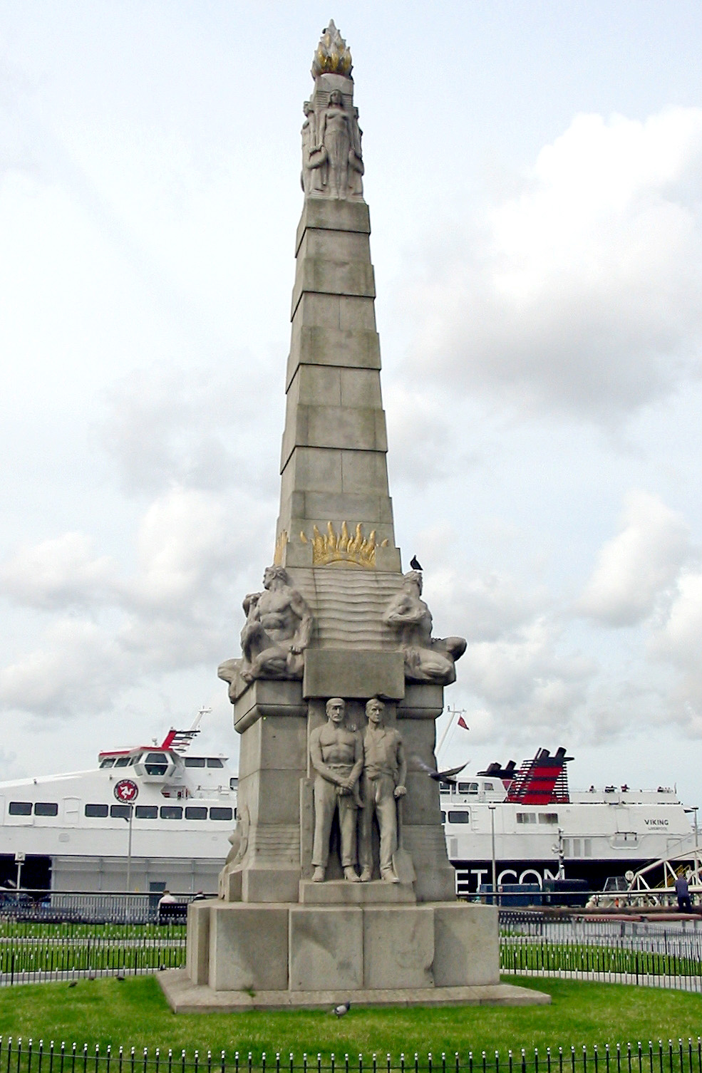 Nrf: Liverpool